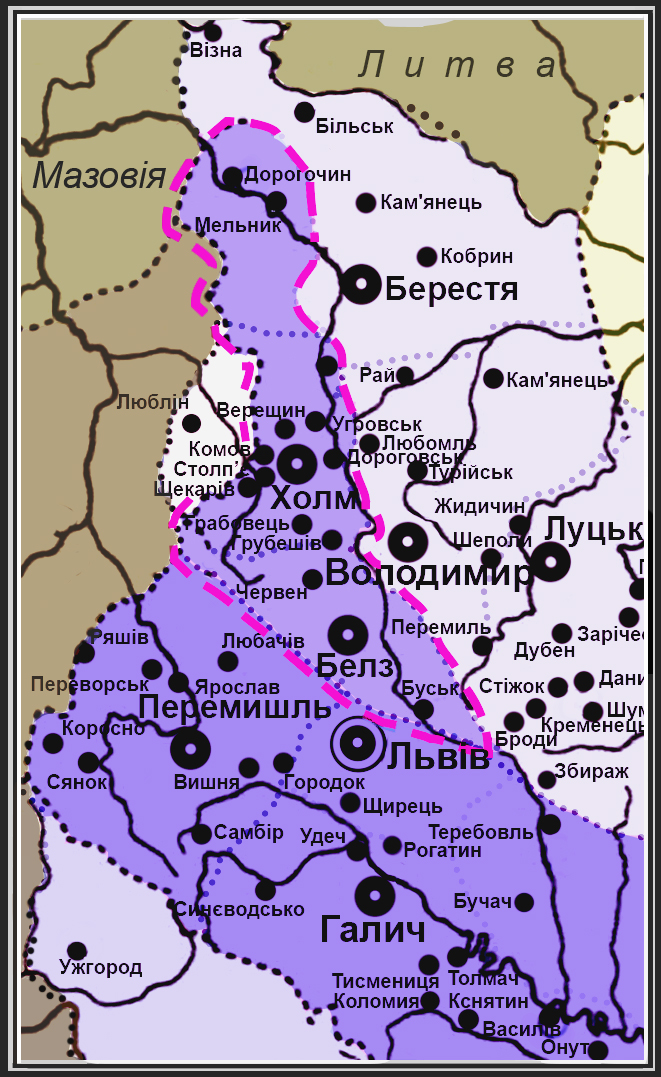 Possession of Yuri Lvovich within the state of Prince Lev at the end of the XIII century.